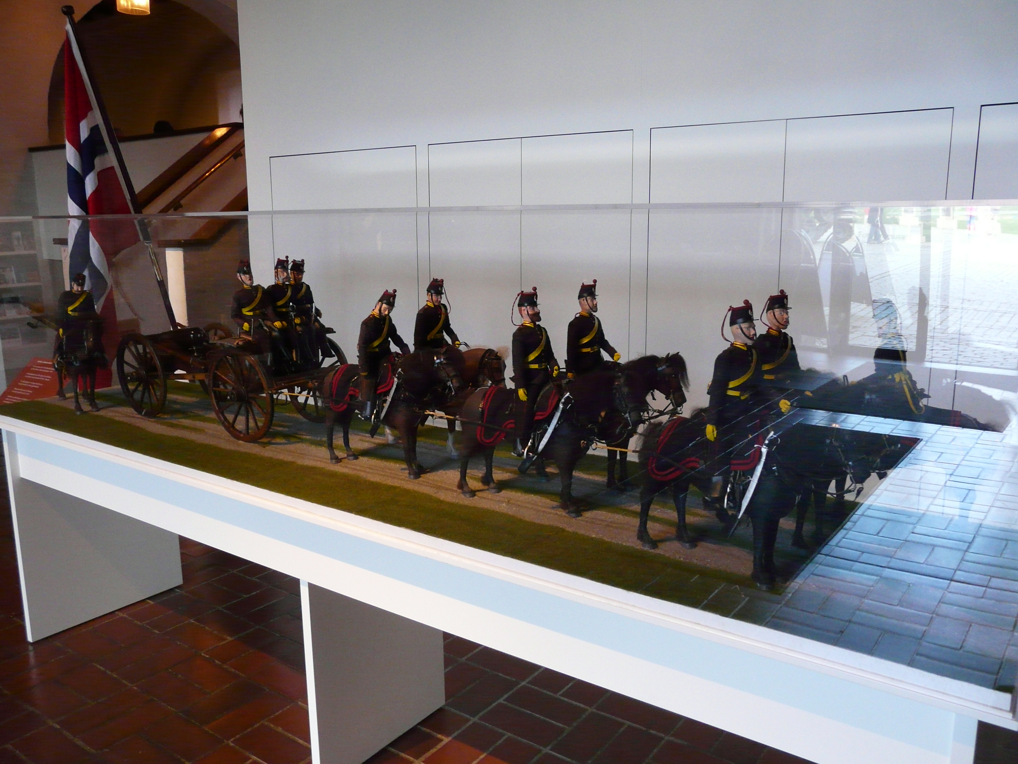 Модель артиллерийского расчёта норвежской армии 1880-х в походе на лошадях. Музей Вооружённых Сил Норвегии в Осло.